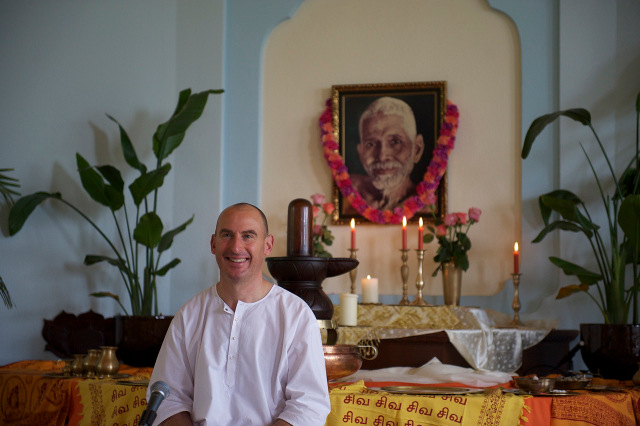 Nome (spiritual teacher and author)